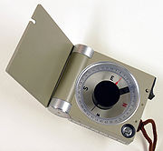 Geological stratum compass after Prof. Clar